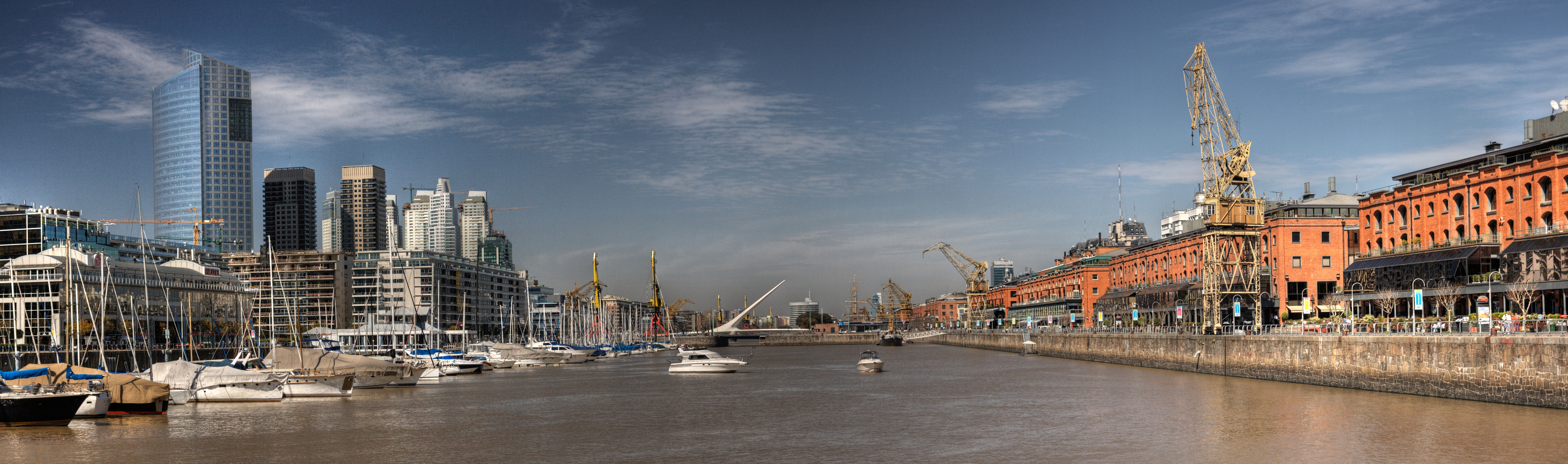 View of Puerto Madero from the northern end of Dock 3.